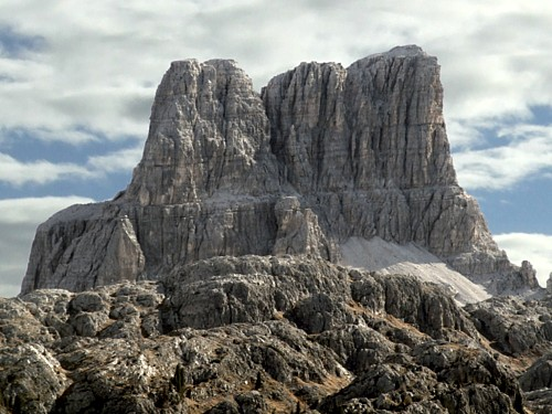 Monte Averau (2649 m) Picture taken and edited by user Idefix October 31, 2006